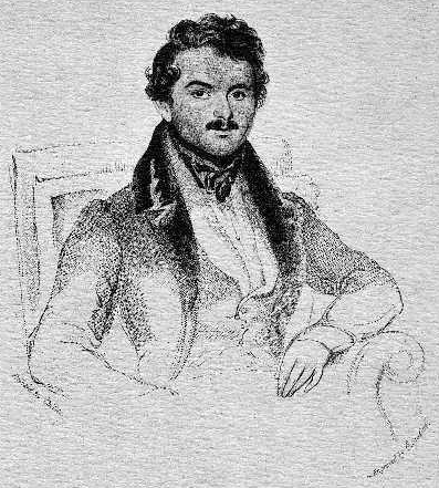 Nikolay Kuzmich Ivanov